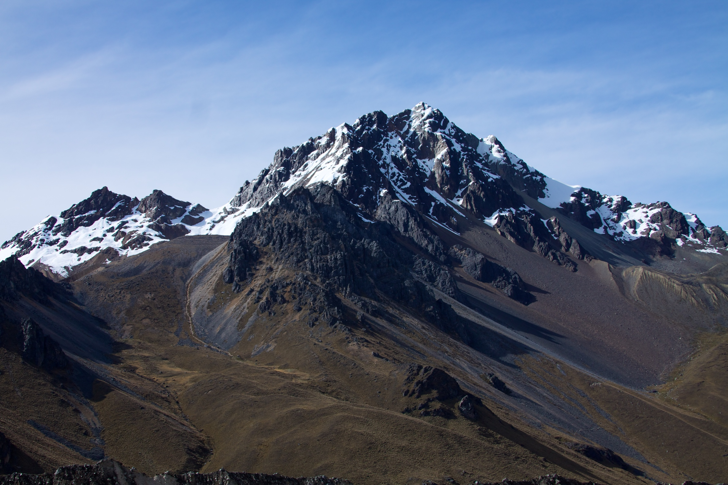 I love this shot for the sweep of reddish-grey scree rocks dragging on the right side of the mountain. It almost looks like it was digitally melted and warped, the two parts of the slope not looking like they fit together.